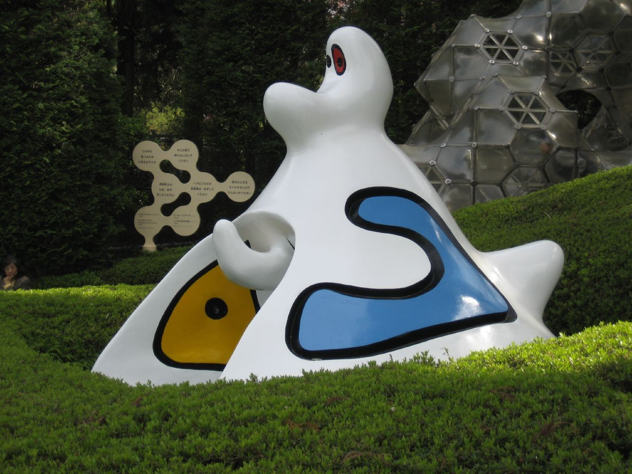 sculpture "Personnage"(1972) by Joan Miro in Hakone Open Air Museum/Japan